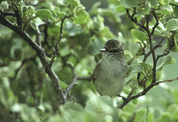 Nihoa millerbird (Acrocephalus familiaris kingi) on Nihoa Island, Northwestern Hawaiian Islands